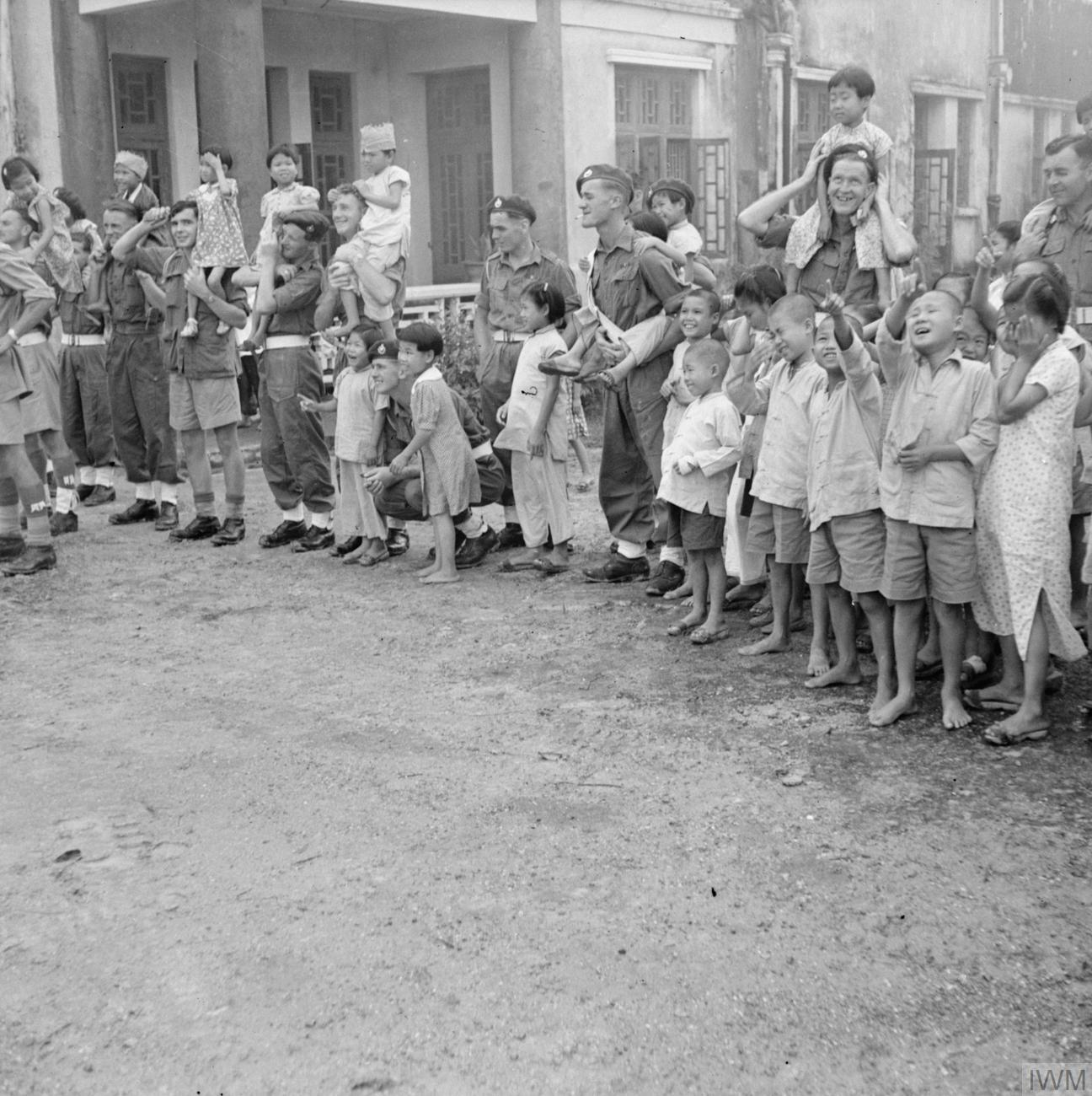 The British Reoccupation of Hong Kong Men of 42 Marine Commando and children from the Tai Po Orphanage watch a fireworks display during a party hosted by the unit. The orphanage was located in the new territory on the mainland adjacent to Hong Kong where 42 Marine Commando were carrying out policing operations.